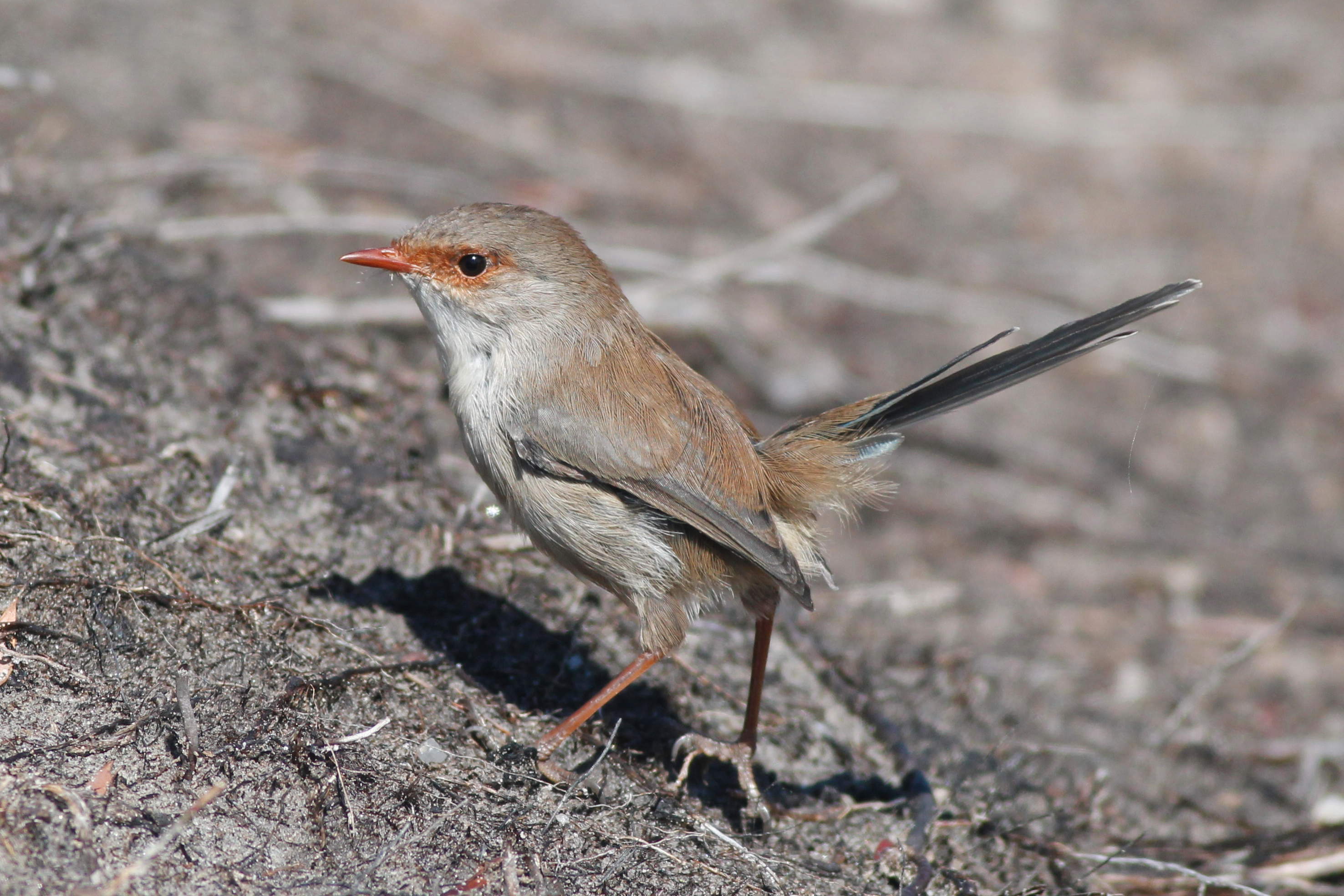 An immature male Superb Fairywren in Cape Liptrap, Gippsland, Victoria, Australia (young males usually develope a blue tail before the first winter).